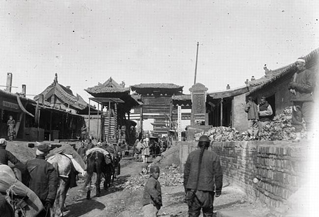 See title